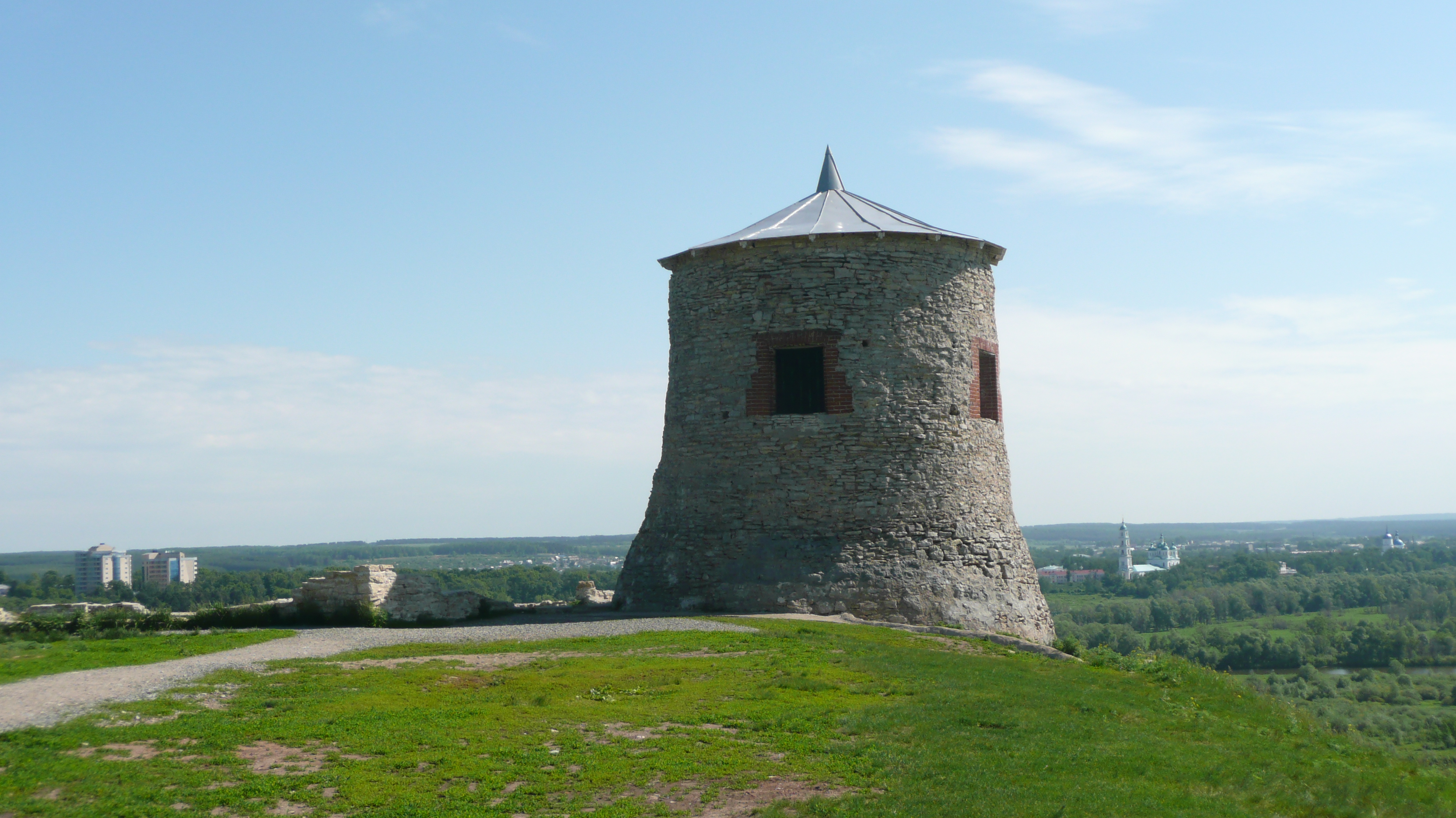 The medieval devil tower (Şaytan qalası) in Yelabuga (Tatarstan)